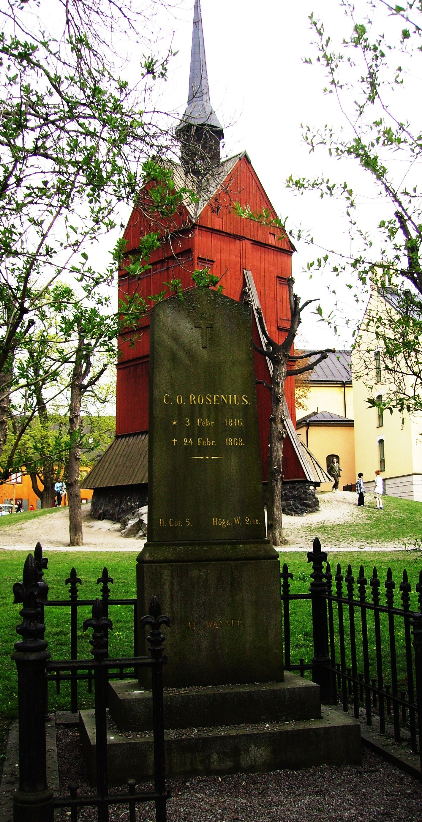 Picture of CO Rosenius grave, Johannes churchyard, Stockholm